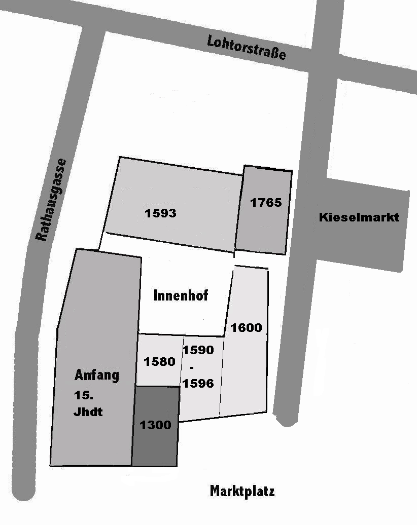 s.o.